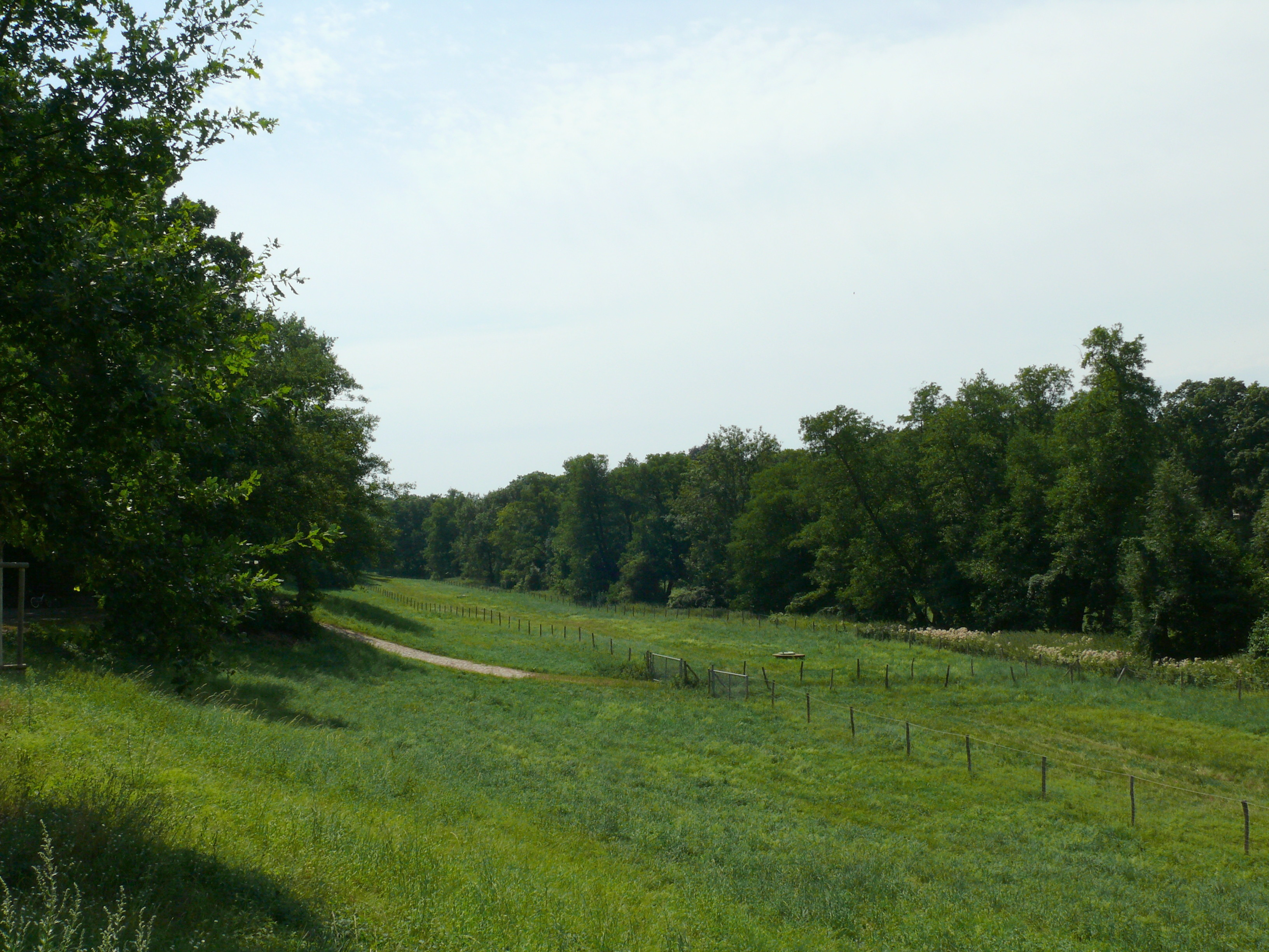 Nikolassee Gerkrathstraße Rehwiese